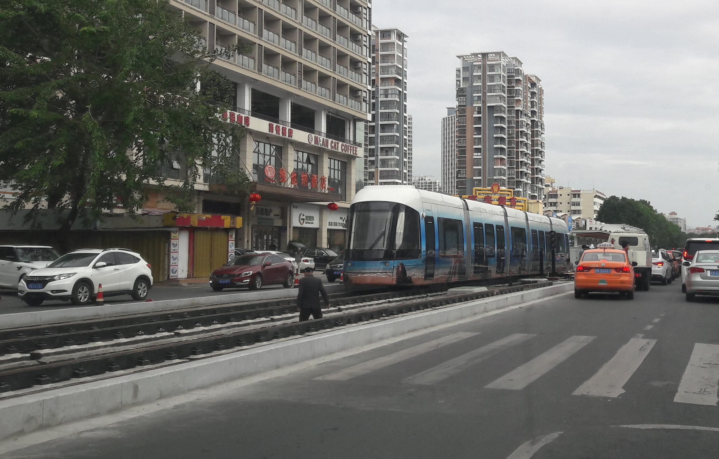 futur tram line in Sanya, Hainan, China.